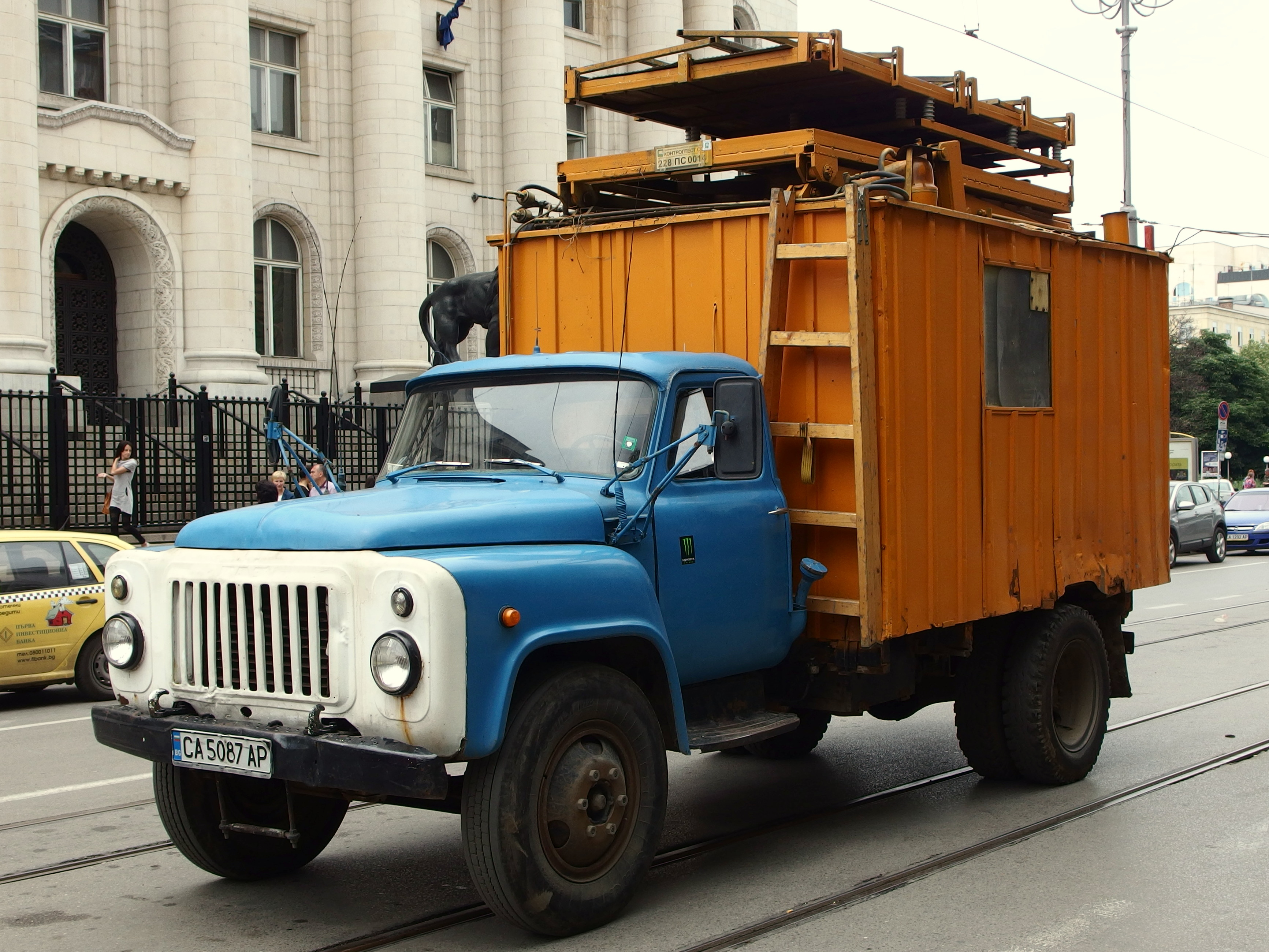 2014-06-16 in Sofia.